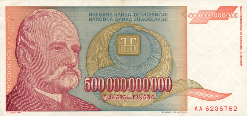 500,000,000,000 Yugoslav dinar banknote, featuring image of Jovan Jovanovic Zmaj